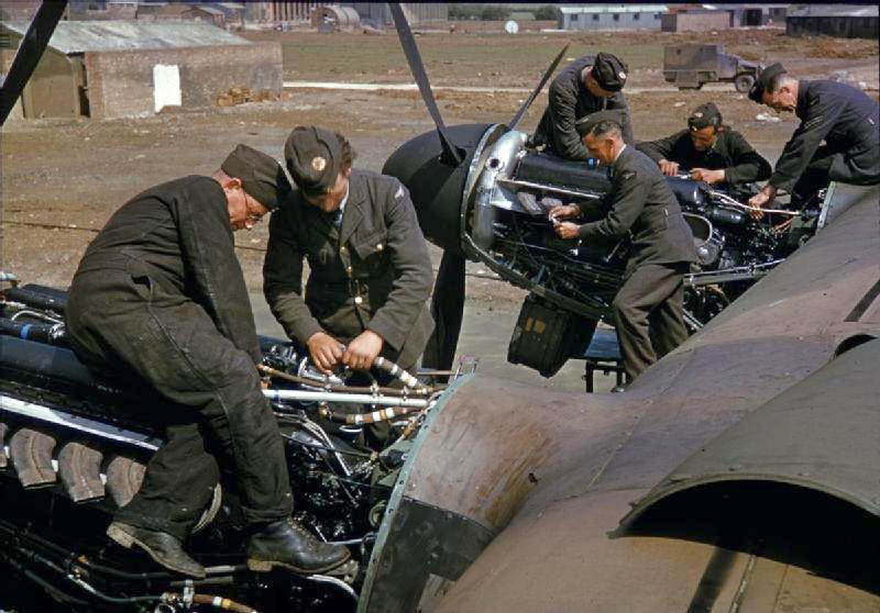 A view from the cockpit of an Avro Lancaster, believed to be an aircraft of No 207 Squadron, Royal Air Force, as work is done on the starboard Merlin engines of the aircraft, near the technical site at Bottesford.